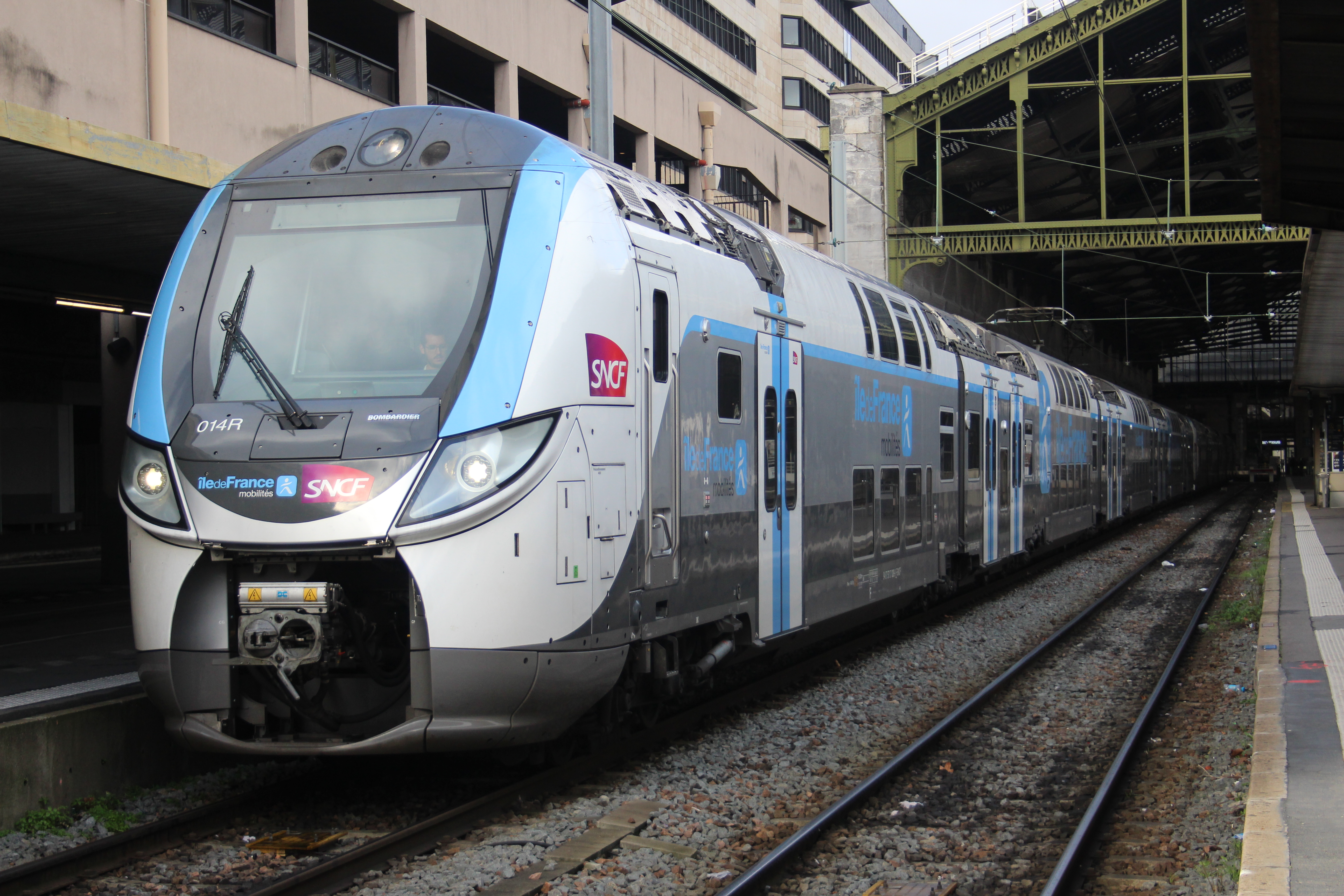 A modern SNCF Bombardier Omneo/Régio2N for the Île de France region, sat at Paris Gare de Lyon, before working a regional service in the region.